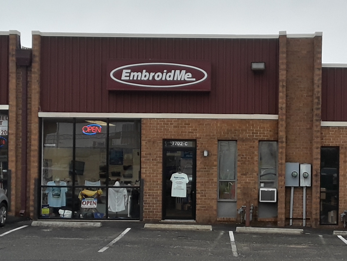 EmbroidMe franchise in Newington, Virginia